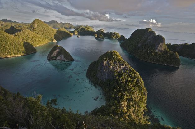 These Raja Ampat Islands are thought to have the greatest marine diversity on earth. By exploring islands like these in the Malay Archipelago (modern day Indonesia), Alfred Russell Wallace (the “father of biogeography") discovered the Wallace Line and crafted a theory of evolution by natural selection. Biogeography can play a similarly important role in the search for underlying drivers of economic development.